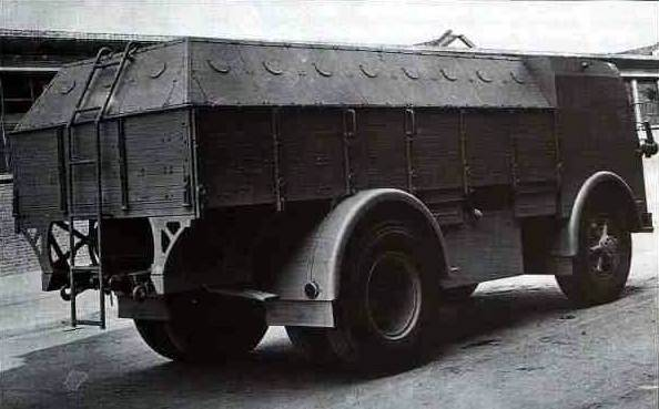 Italian WWII armoured personnel carrier